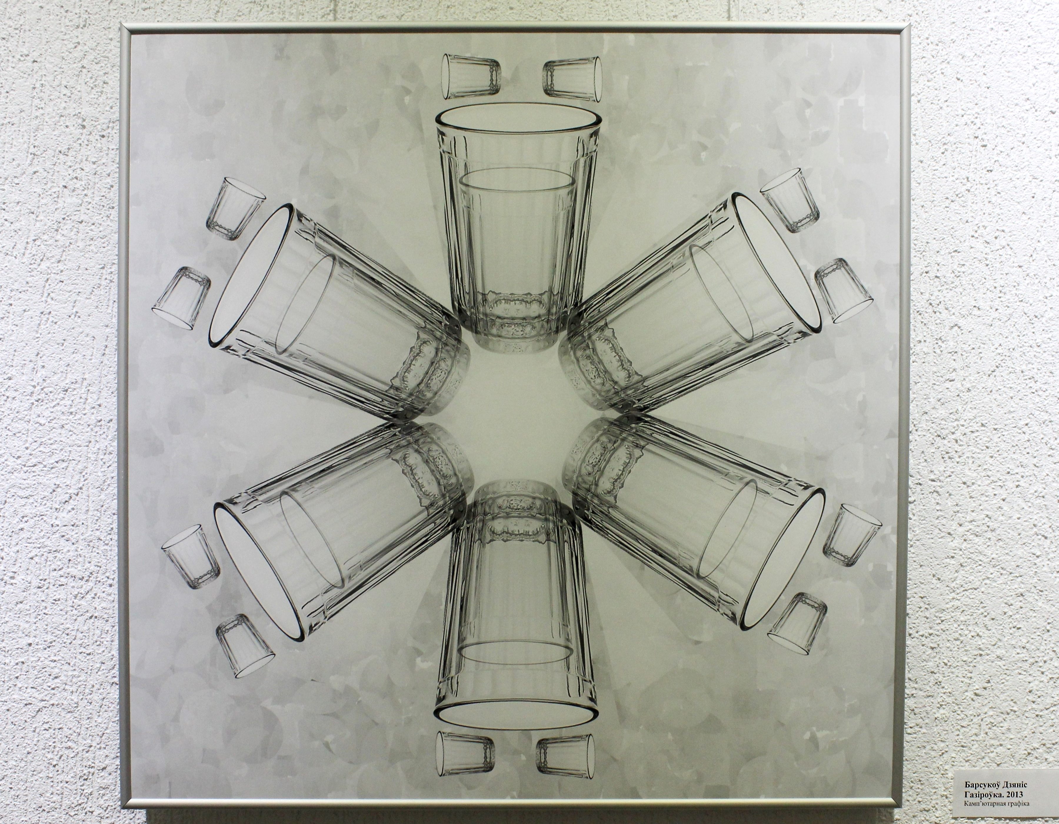 Belarusian artist Denis Barsukov. "Soda", 2013. Computer drawings.